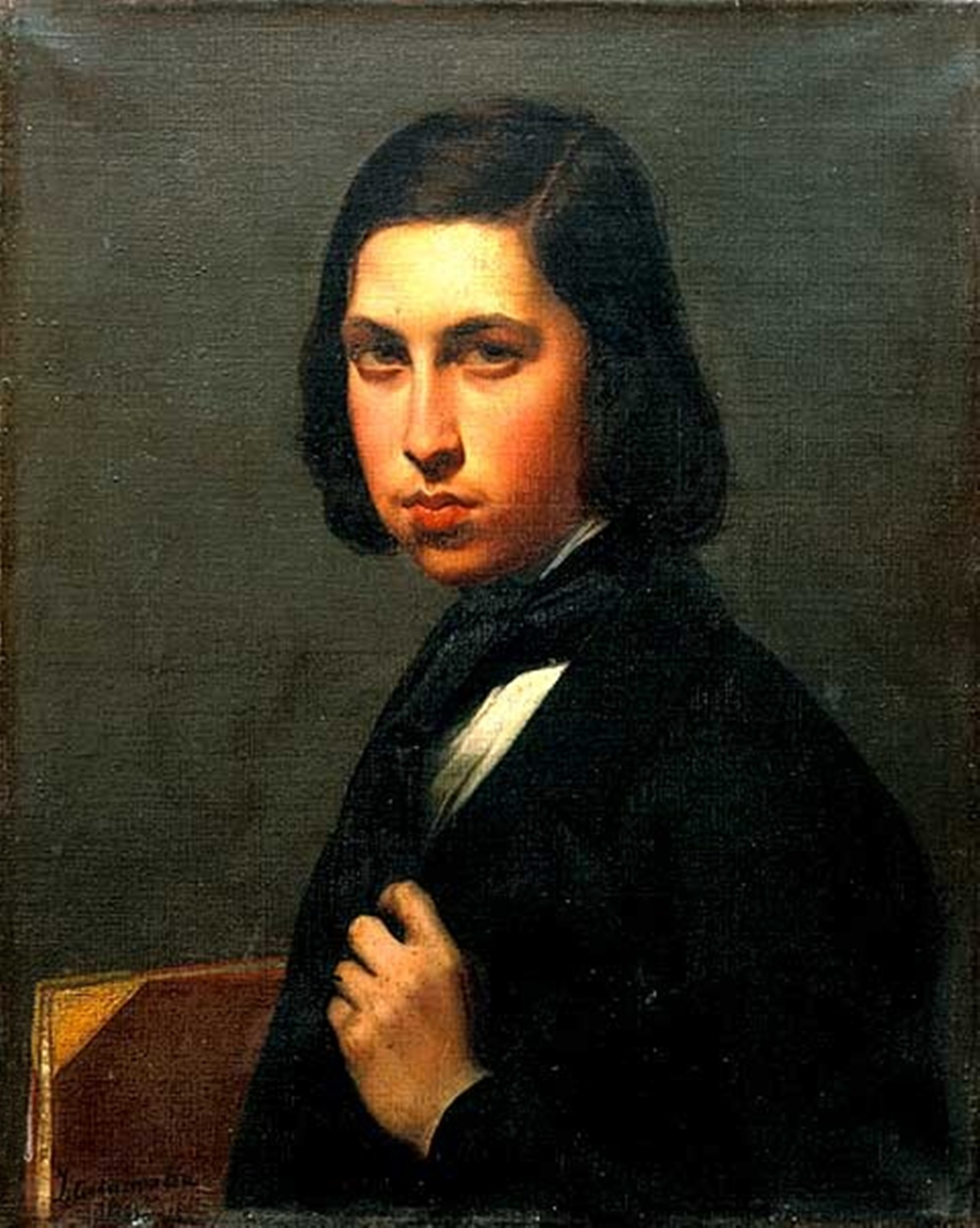 The portrait is made by the painter and engraver Joséphine Raoul-Rochette (1817-1893), wife of Luigi Calamatta, painter. She is the pupil of Jean-Auguste-Dominique Ingres, granddaughter of sculptor Jean-Antoine Houdon and mother-in-law of Maurice Sand. He is the eldest son of George Sand (1804-1876) and Baron Casimir Dudevant (1795-1871).